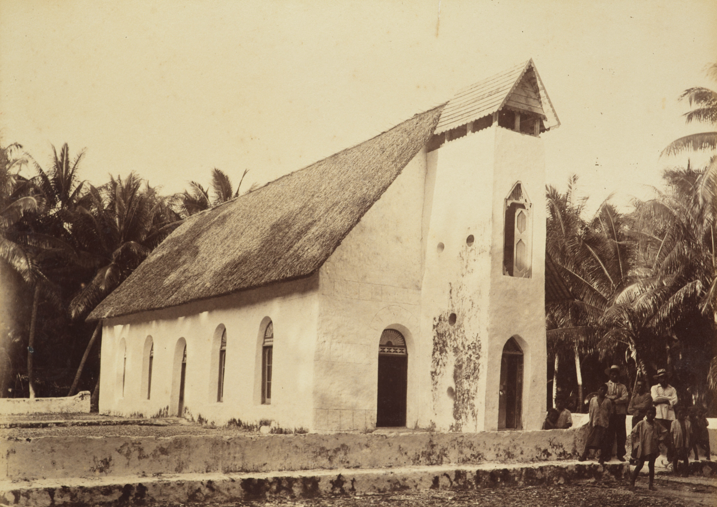 Tukao Church in Manihiki, 1886. From the album: Views in the Pacific Islands, 1886, Manihiki, by Thomas Andrew. Te Papa (O.037810)